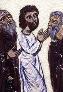 Presian II of Bulgaria.